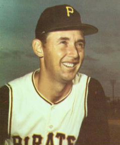 Professional baseball player Tommie Sisk